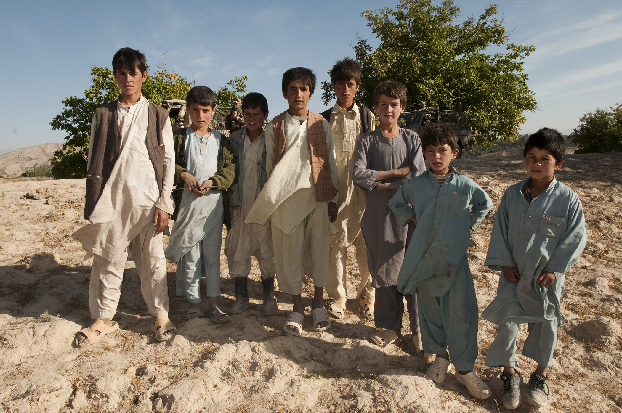 BADAKHSHAN, Afghanistan - Children take time for a photo during a Civil Military Cooperation mission in Gazanak village, where a school is being constructed for the locals.